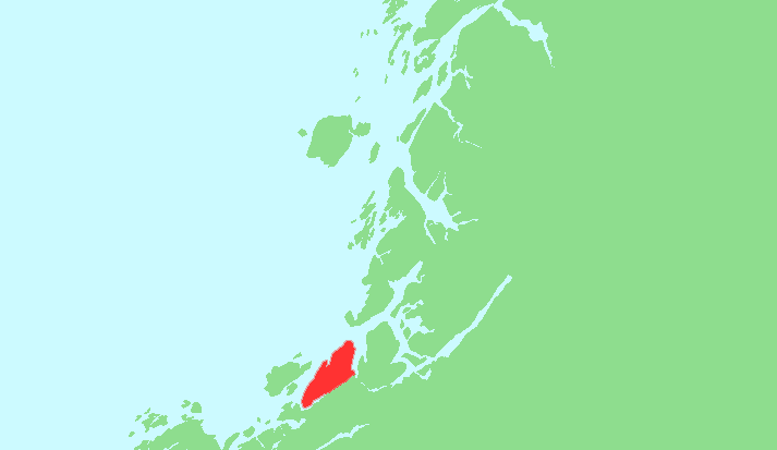 Locator map of Austra, Nord-Trøndelag and Nordland, Norway